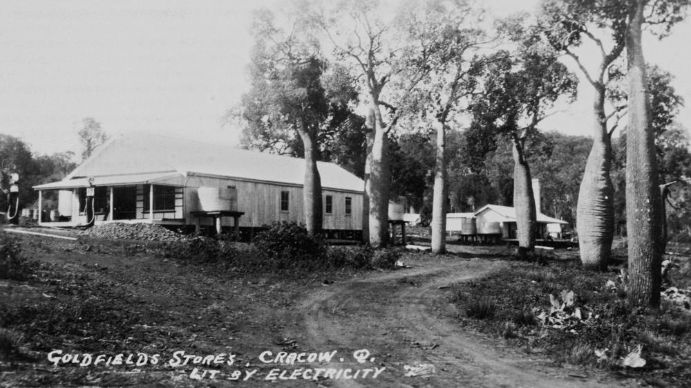 The galvanised iron building appears to have sold everything including petrol. Note the bottle trees growing either side of the track.